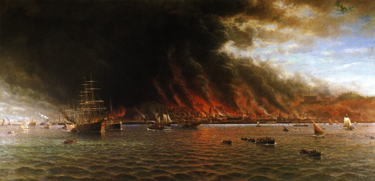 Evacuation of San Francisco - 1906